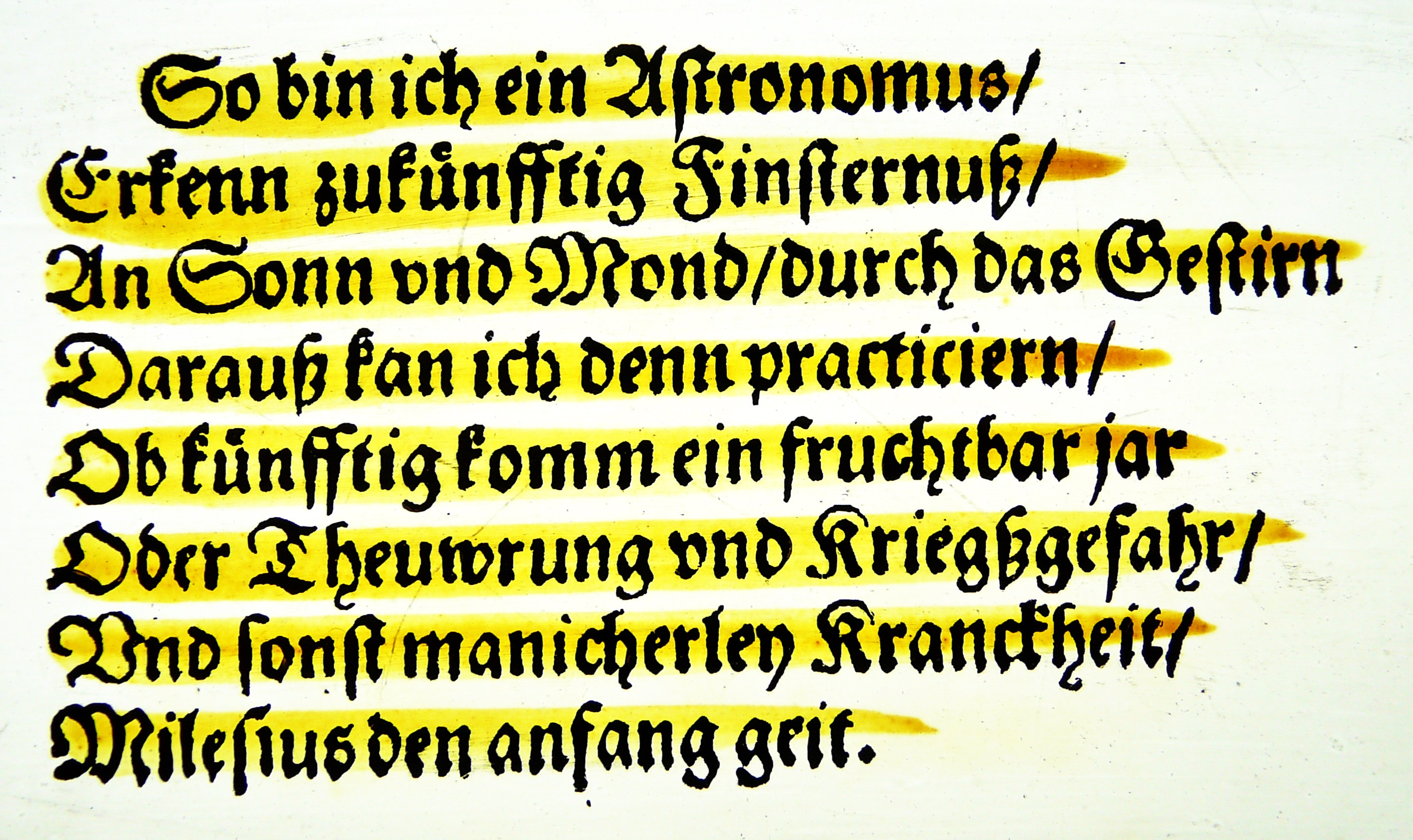 Medieval text about the work of an astronomer by the german poet Hans Sachs